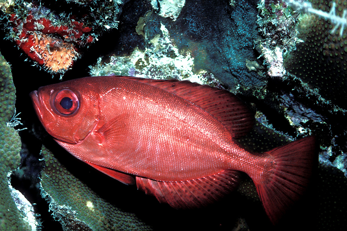 The Glasseye Snapper (Priacanthus cruentatus Syn. Heteropriacanthus cruentatus) likes to work the "night shift" on Bonaire's Calabas Reef